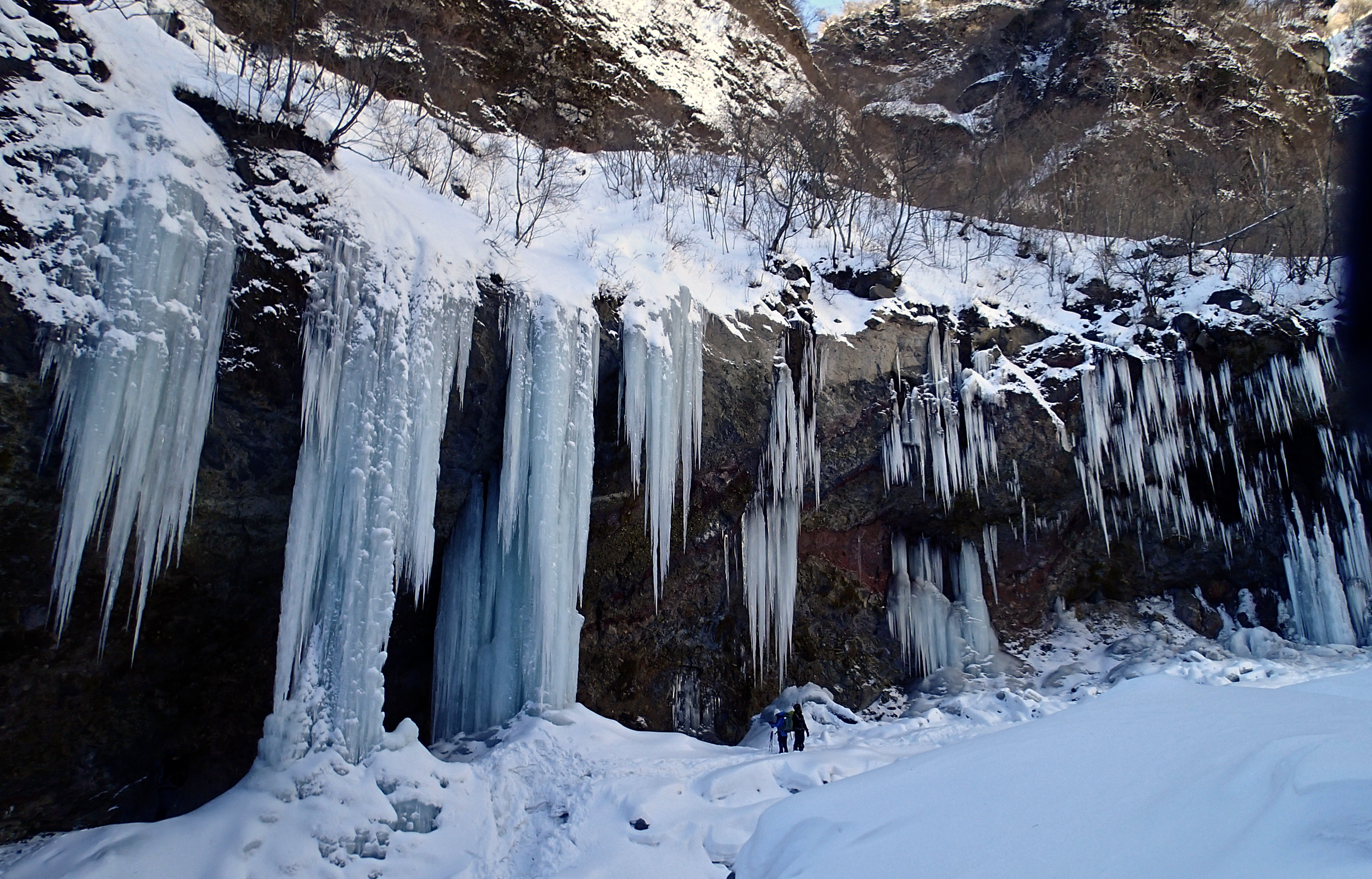 Japan: mount Nyōhō, Tsubomeiwa in the Unryū valley (Nikkō city, Tochigi prefecture).